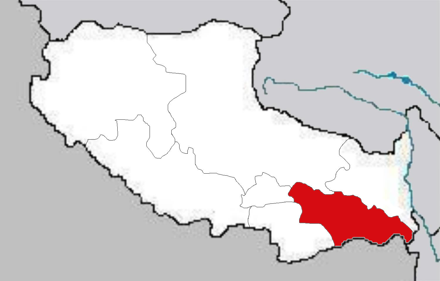 Maps of Tibet Autonomous Region of China